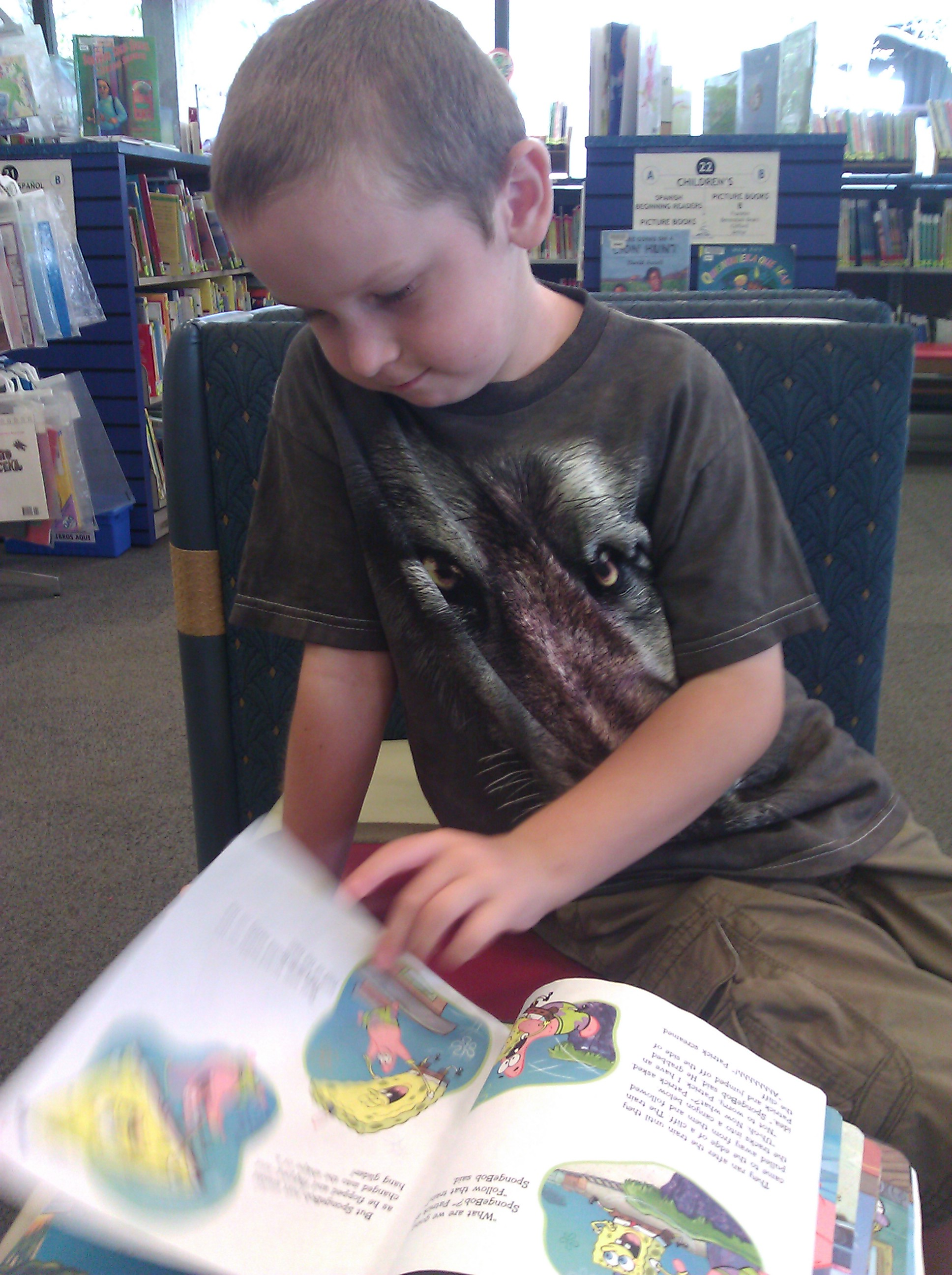 Victor reading a book in Main Library of the Long Beach Public Library (California0.